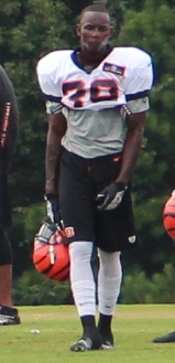 Onterio McCalebb during training camp, 2013